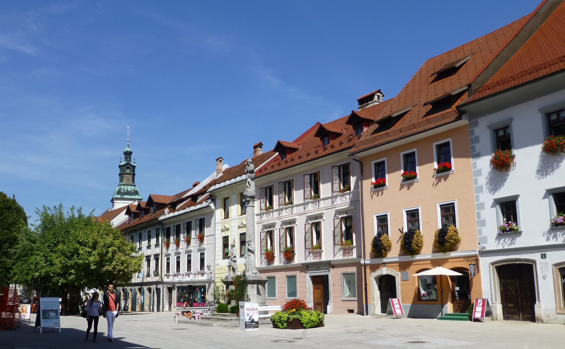 East side houses on the main place of Škofja Loka, Slovenia.